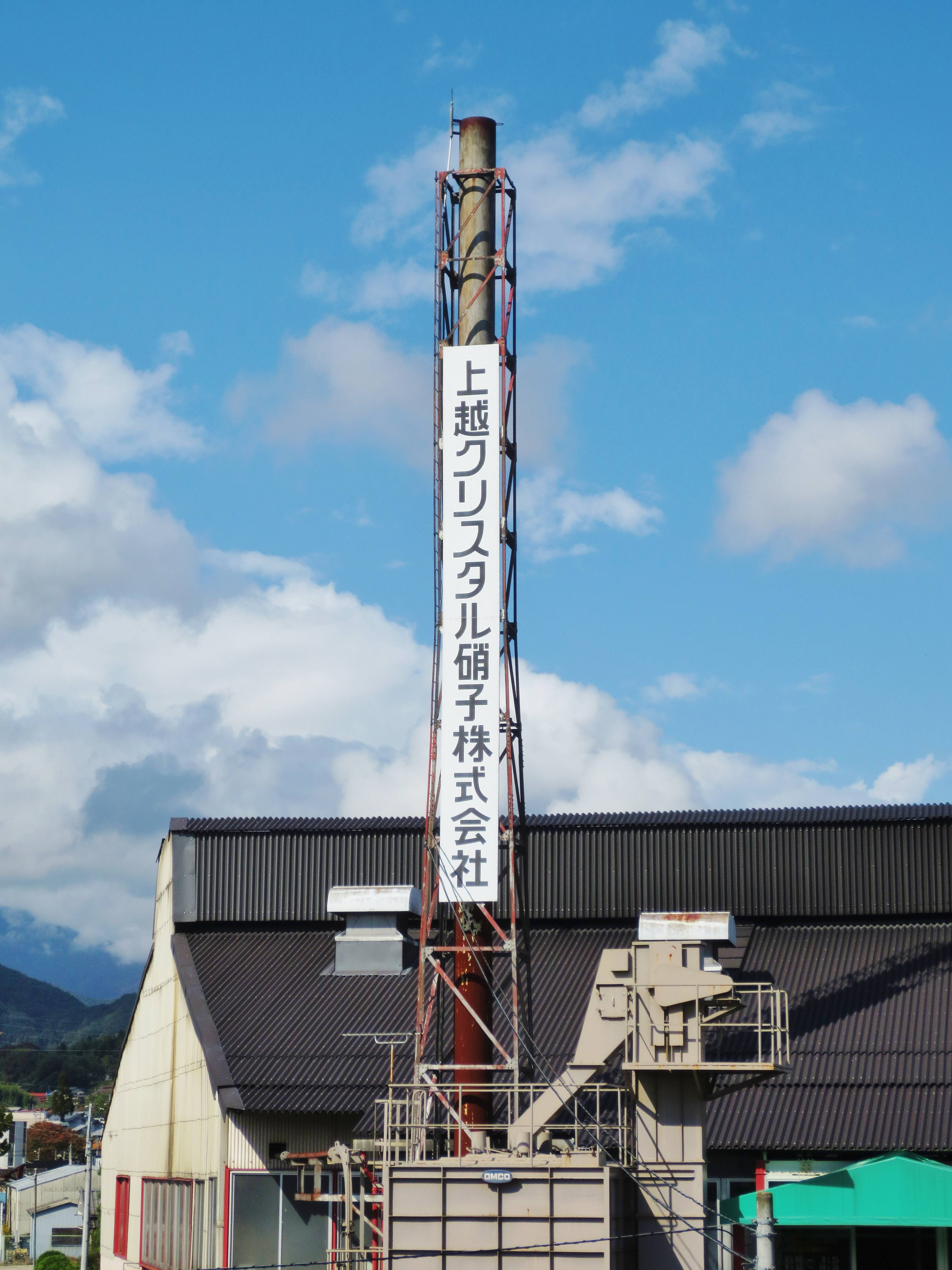 Tsukiyono Vidro Park factory.